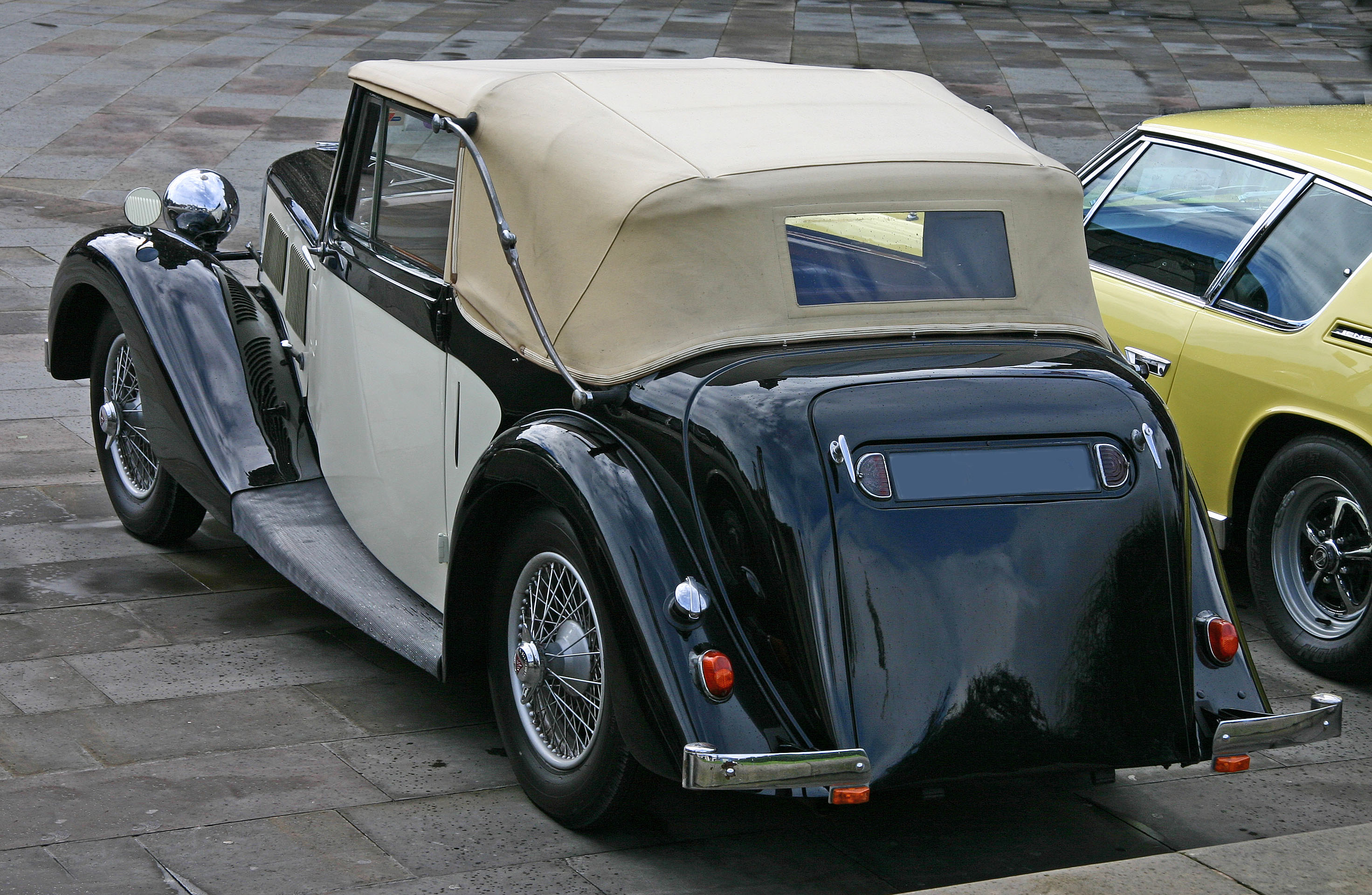 Alvis 12/70 Mulliner DHC 1938